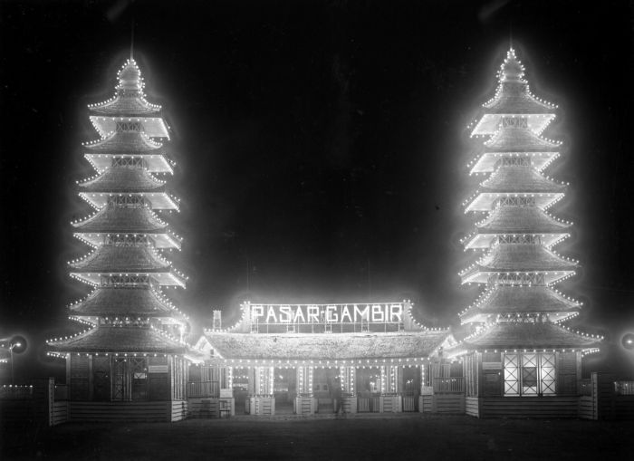 The illuminated entrance of the Pasar Gambir in Batavia at night